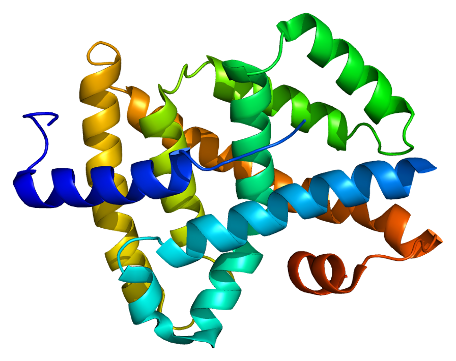 Structure of the NR1H4 protein. Based on PyMOL rendering of PDB 1osh.